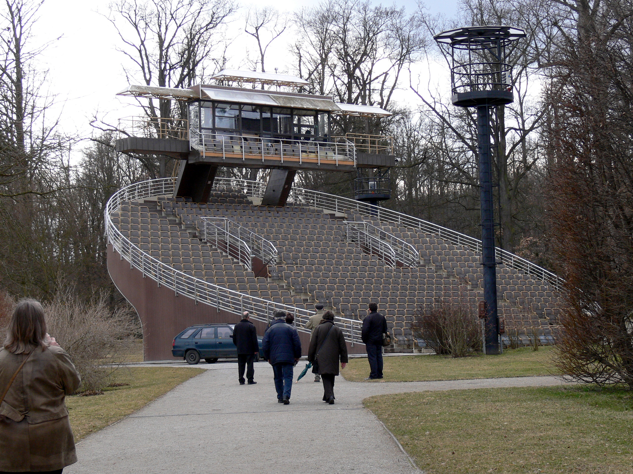 Český Krumlov - Castle gardens. Revolving audience for theatre performances in the castle gardens.